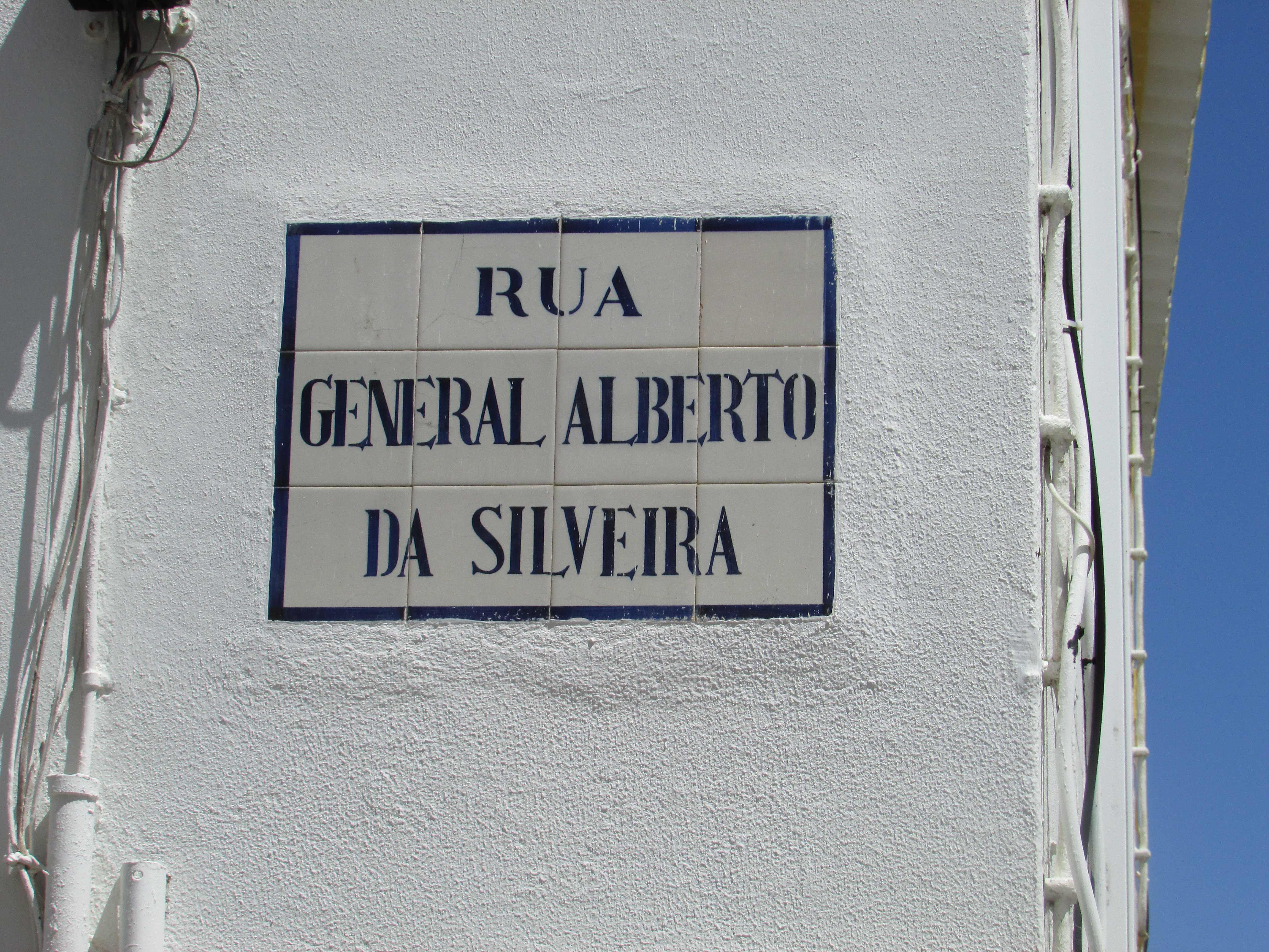 The tile street sign which designates the Rua General Alberto da Silveira towards the Igreja de Santo António within the town of Lagos, Algarve, Portugal.